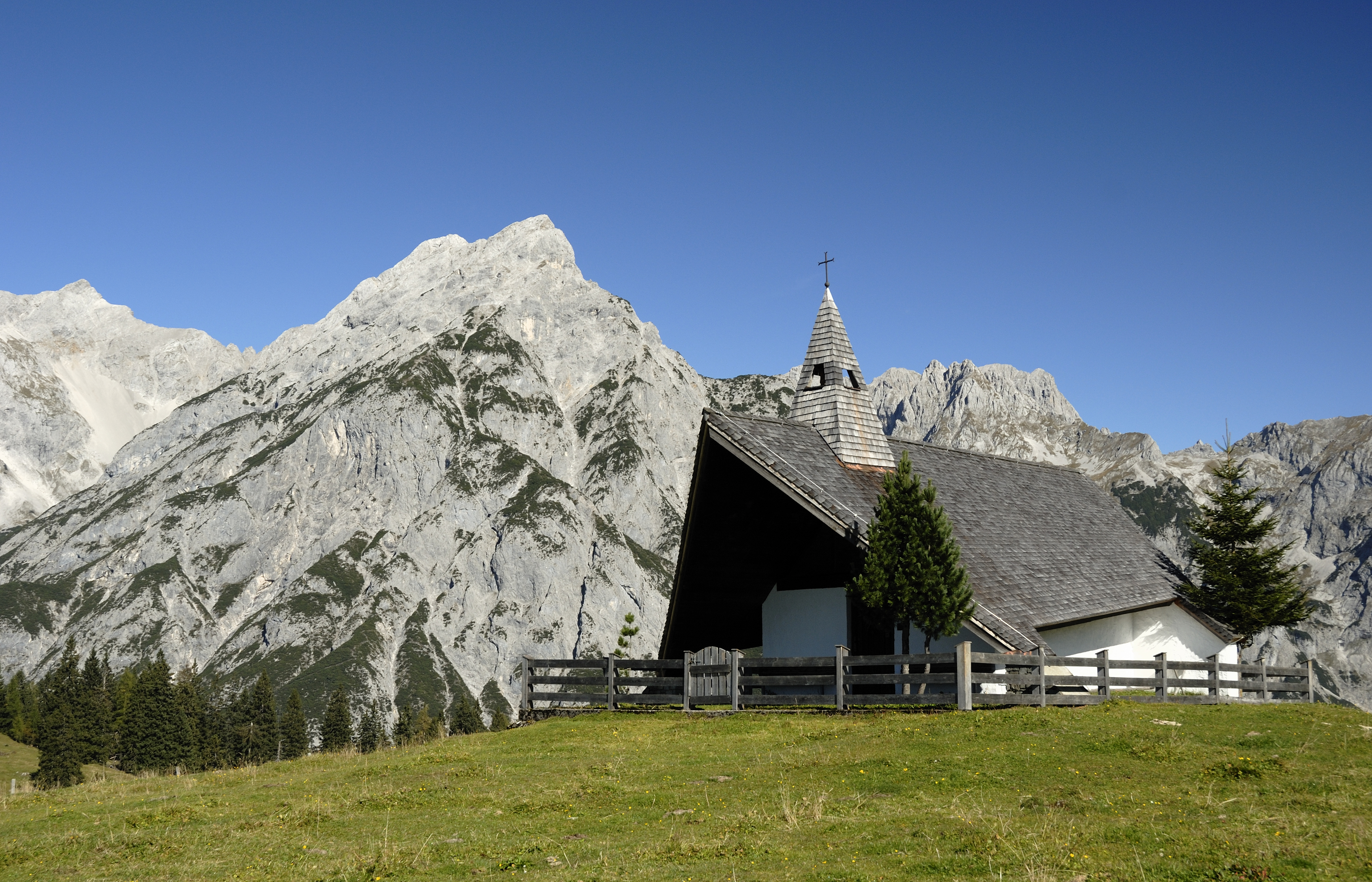 Chapel on the Walder Alm, Karwendel, Austria. In the background Eiskarlspitze, Kaiserkopf und Huderbankspitze This media shows the remarkable cultural object in the Austrian state of Tyrol listed by the Tyrolean Art Cadastre with the ID 60307. (on tirisMaps, pdf, more images on Commons, Wikidata)